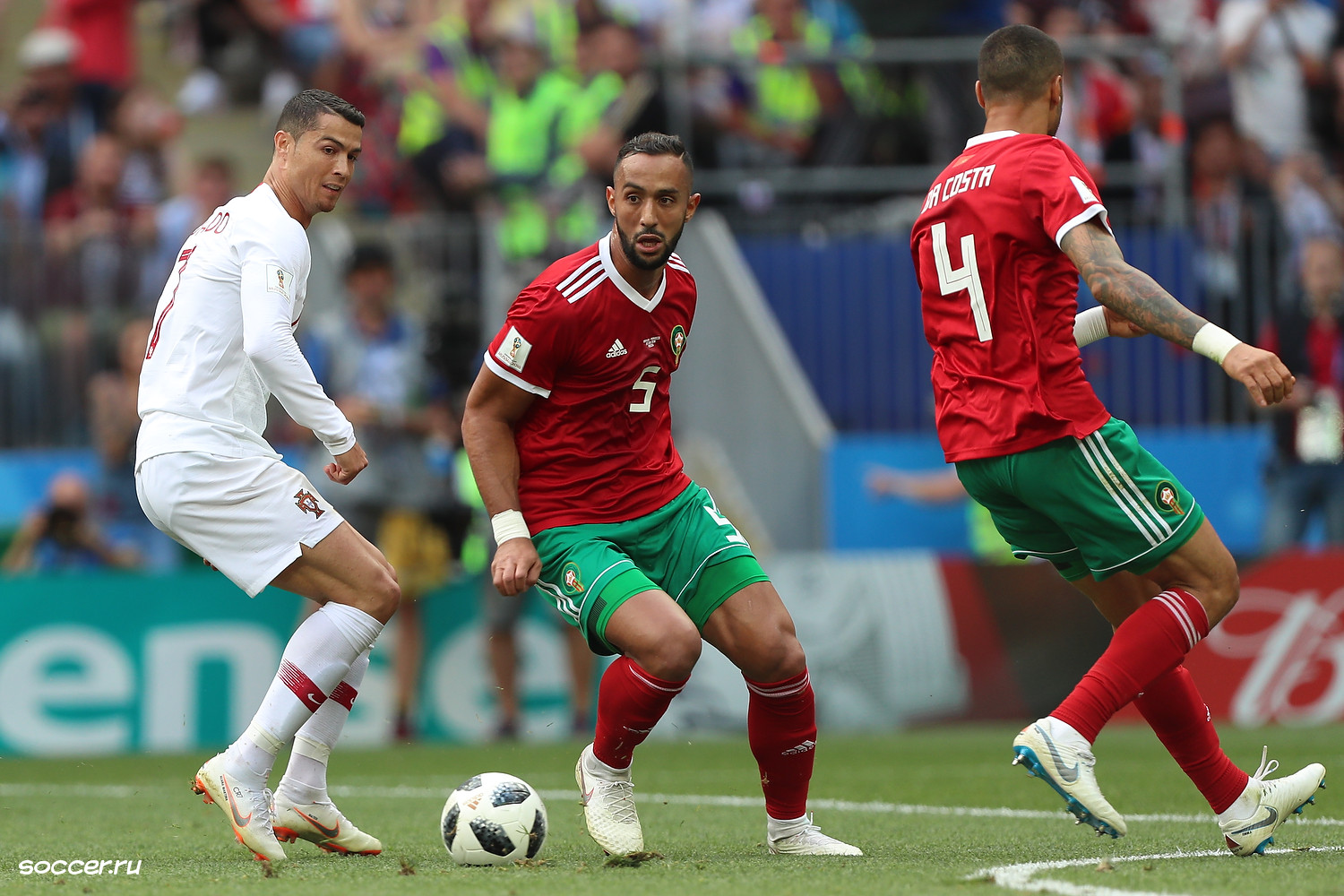 Portugal-Morocco match, 2018 FIFA World Cup